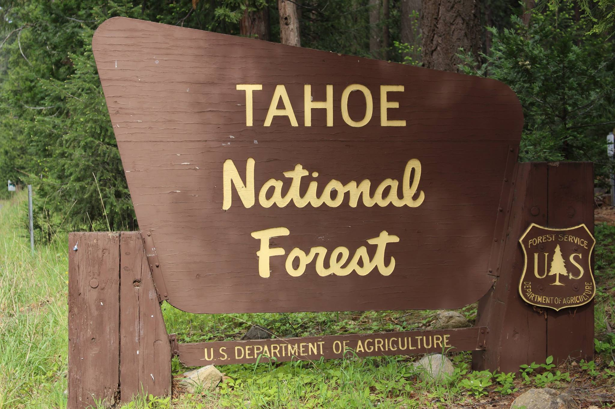 16587296_1812852908976302_4512906339527962622_o